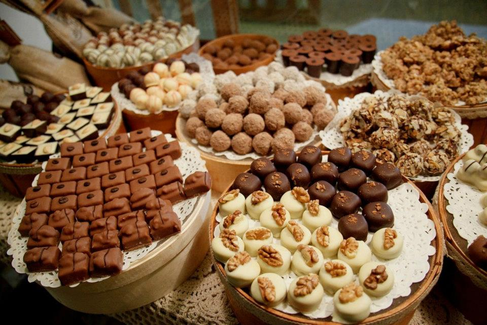 Шоколадні солодощі